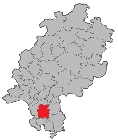 Map of the district court Darmstadt in Hesse